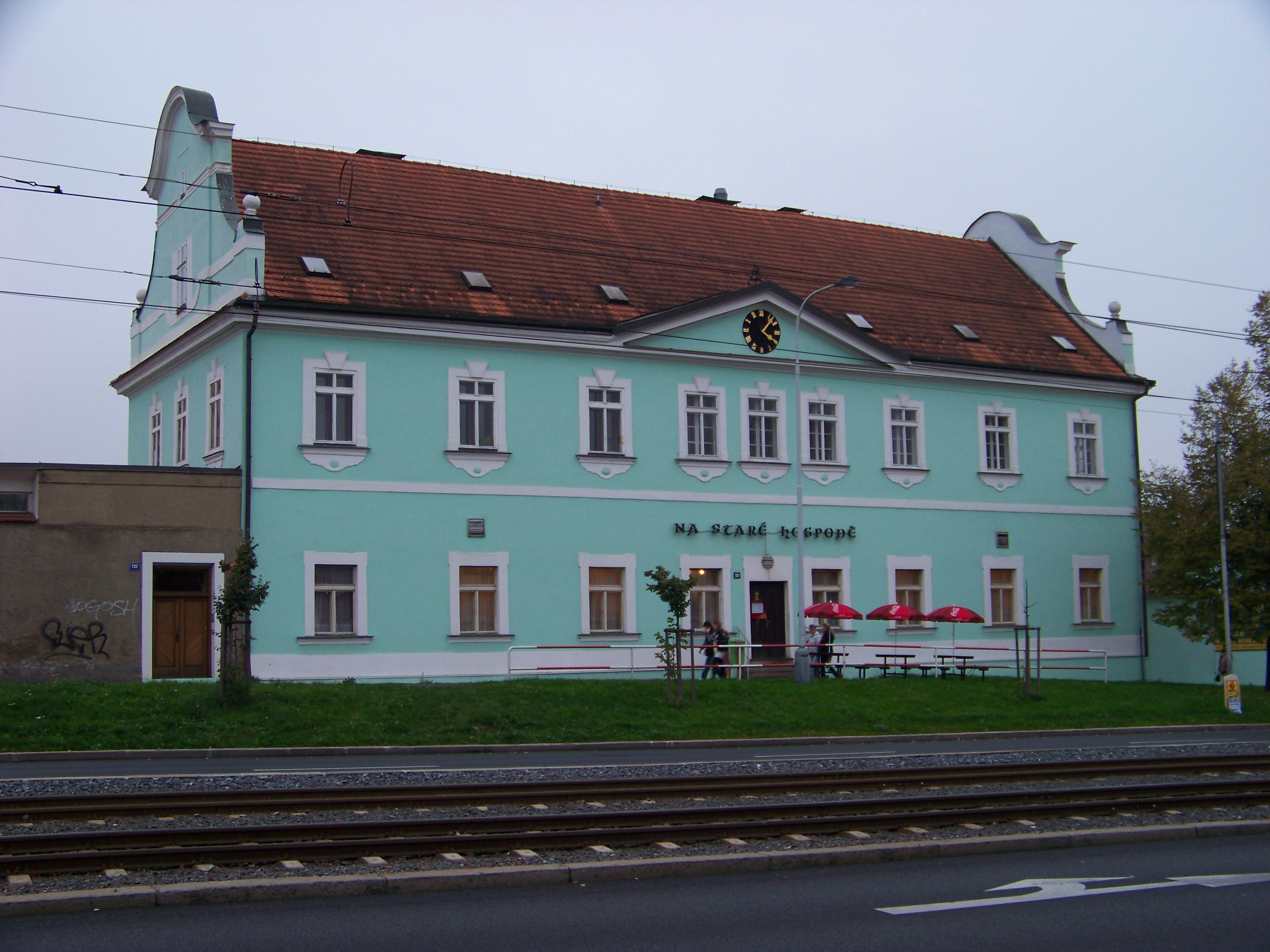 Prague-Hloubětín, the Czech Republic. Poděbradská 1/110, Hloubětínská 1/38, a pub.